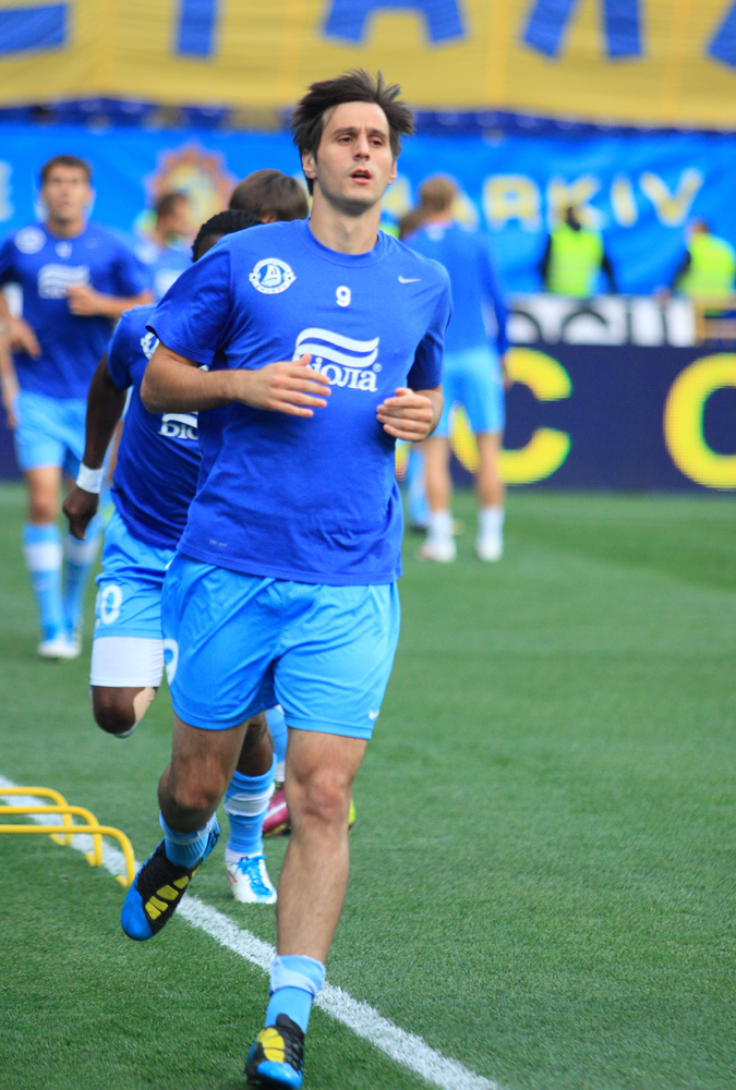 Nikola kalinic